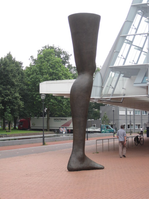 Sculpture 'Noch Einmal' by Henk Visch, Amersfoort, the Netherlands